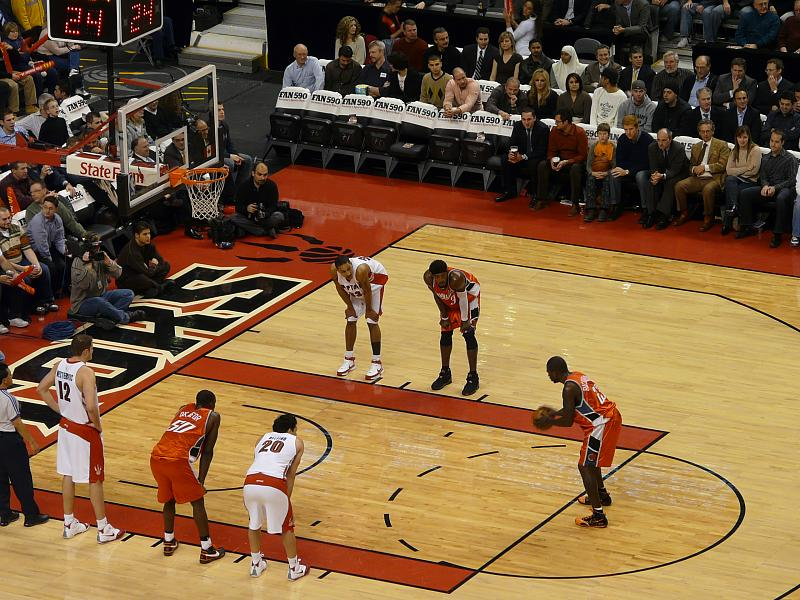 [AfTEr VanCOUvER - TorONtO, ON - CanADA 2007]